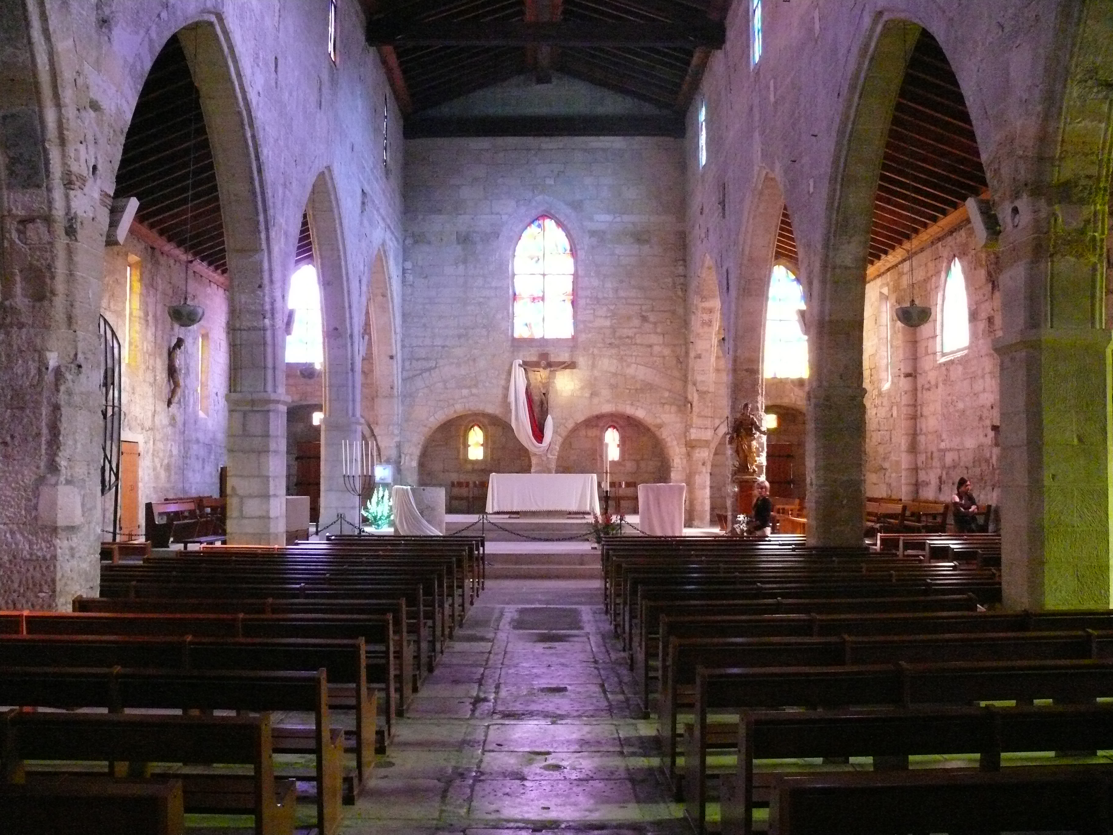 The church of Notre-Dame-des-Sablons, situated at the Place St-Louis, in Aigues-Mortes. The Notre-Dame is a typical gothic church. The glass stained windows are by Claude Viallat.